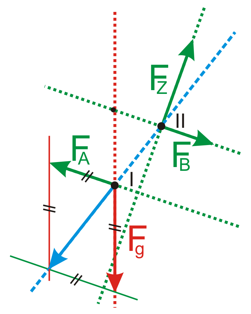 The Culmann method in 4 Steps